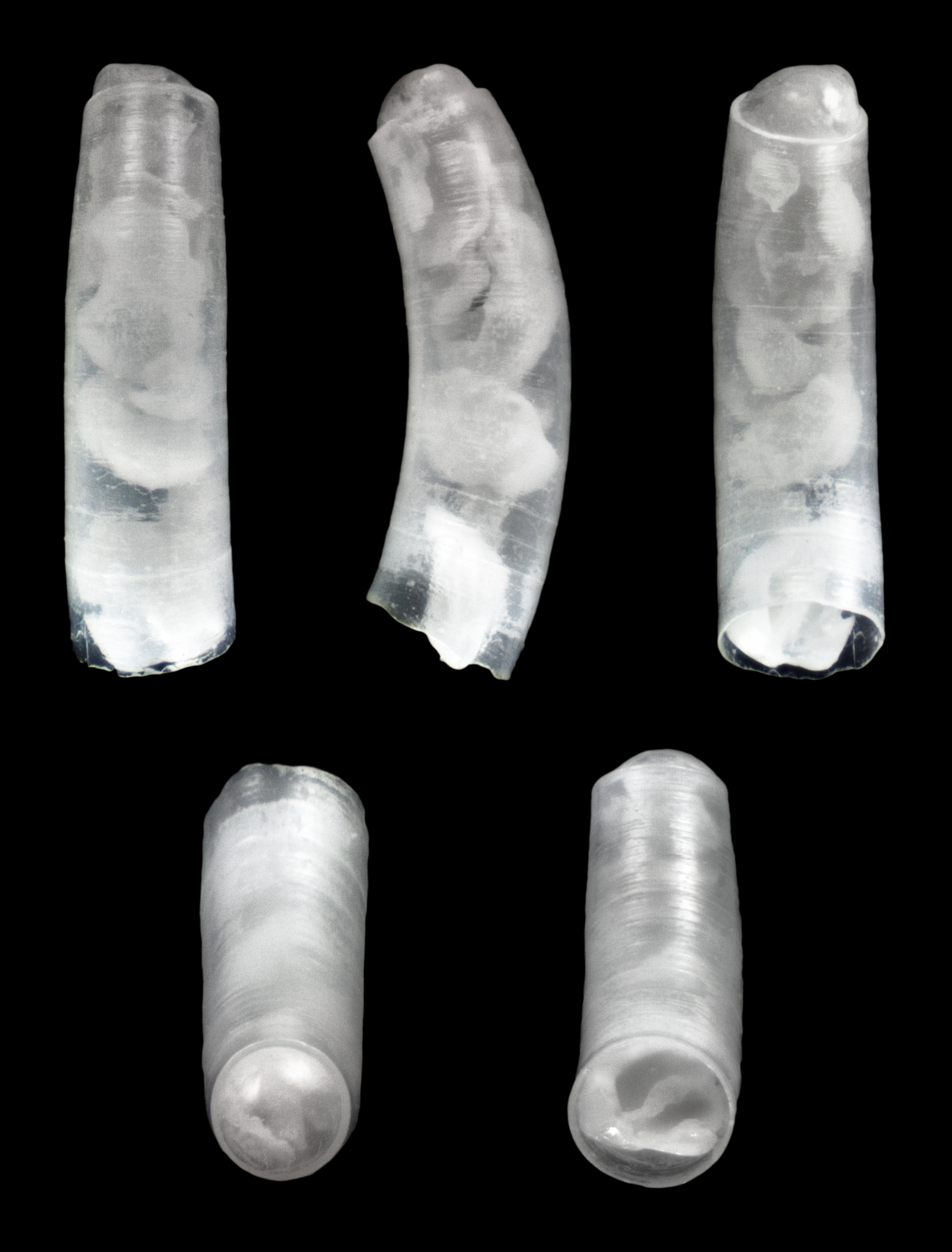 Caecum glabrum (Montagu, 1803); Length 0.17 cm; Originating from Majorca, Spain; Shell of own collection, therefore not geocoded.